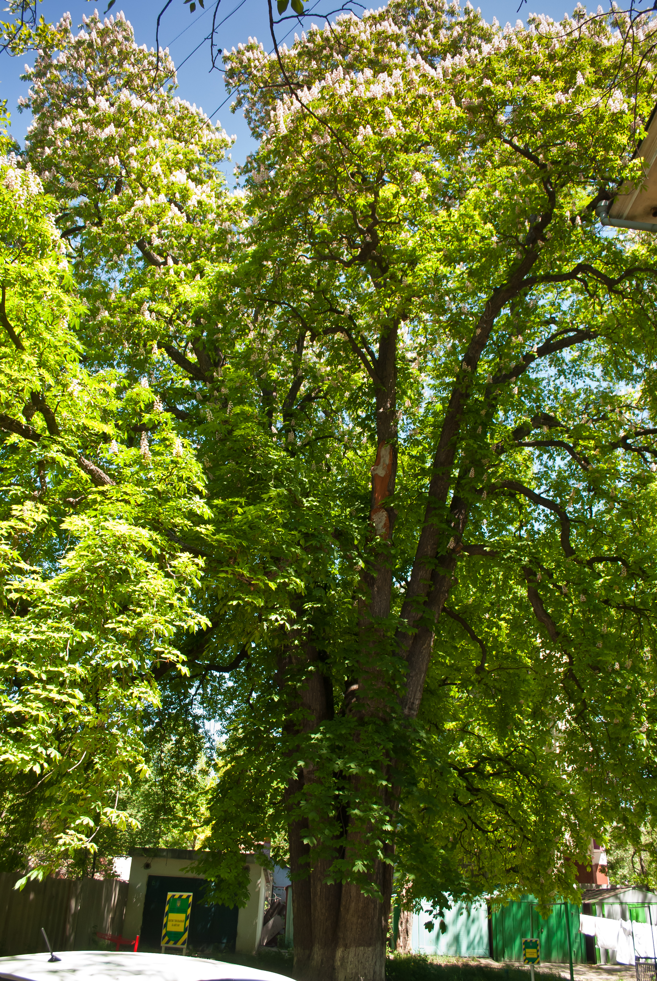 A five-stemmed chestnut-tree planted by Doctor F. Mühlhausen in 1829 (30 Frunze Street, Simferopol, Crimea, Ukraine)